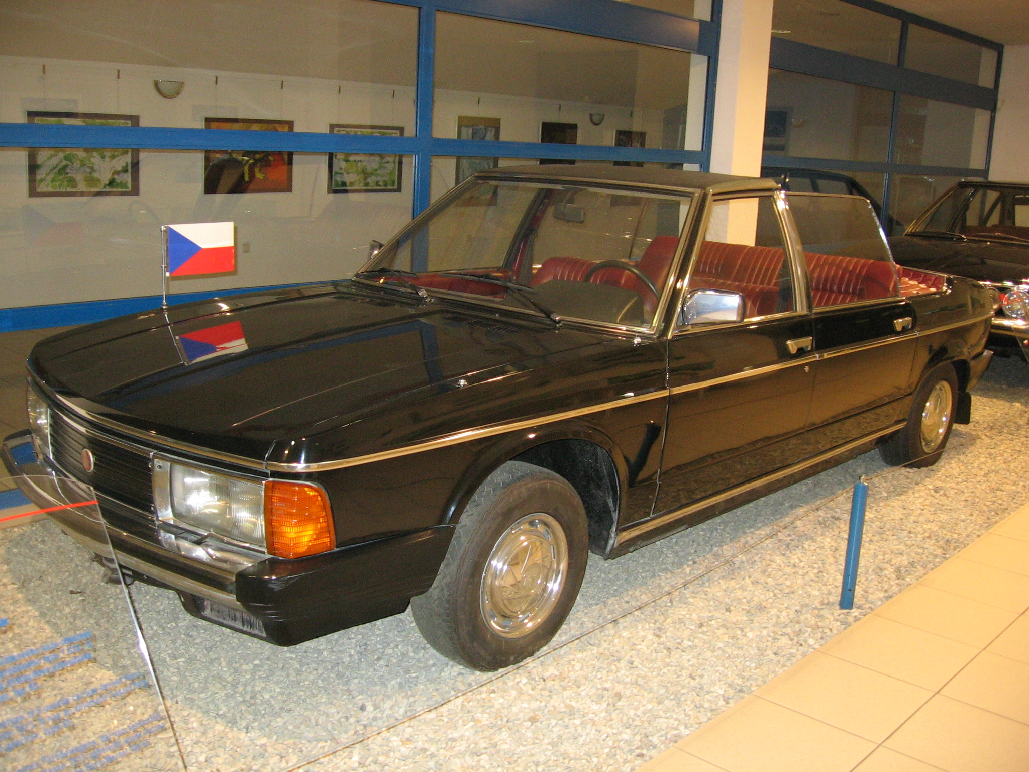 Tatra 613 Kabrio - parade special with automatic transmission